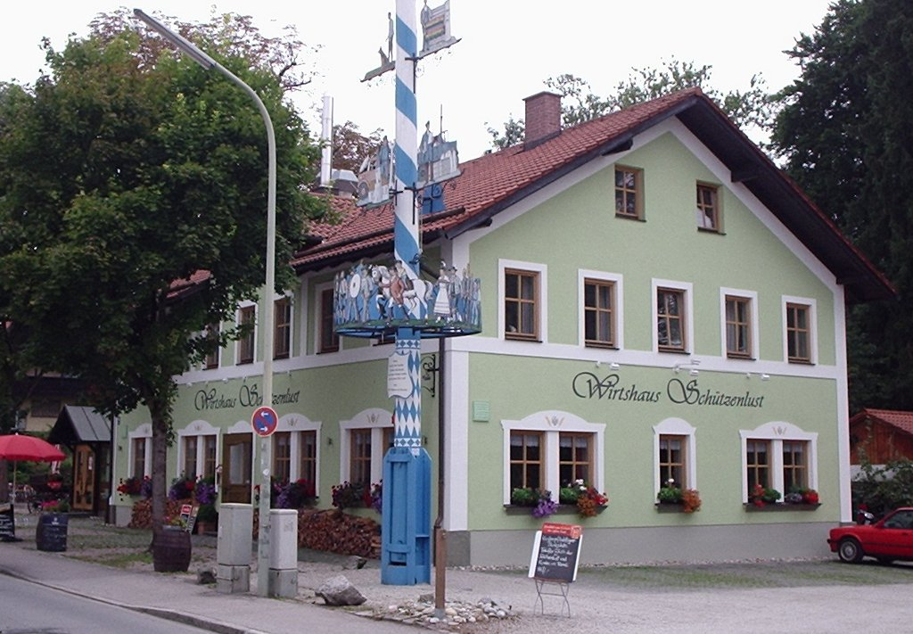 Restaurant "Wirtshaus Schuetzenlust" at Herterichstraße, Solln, Munich, Germany.